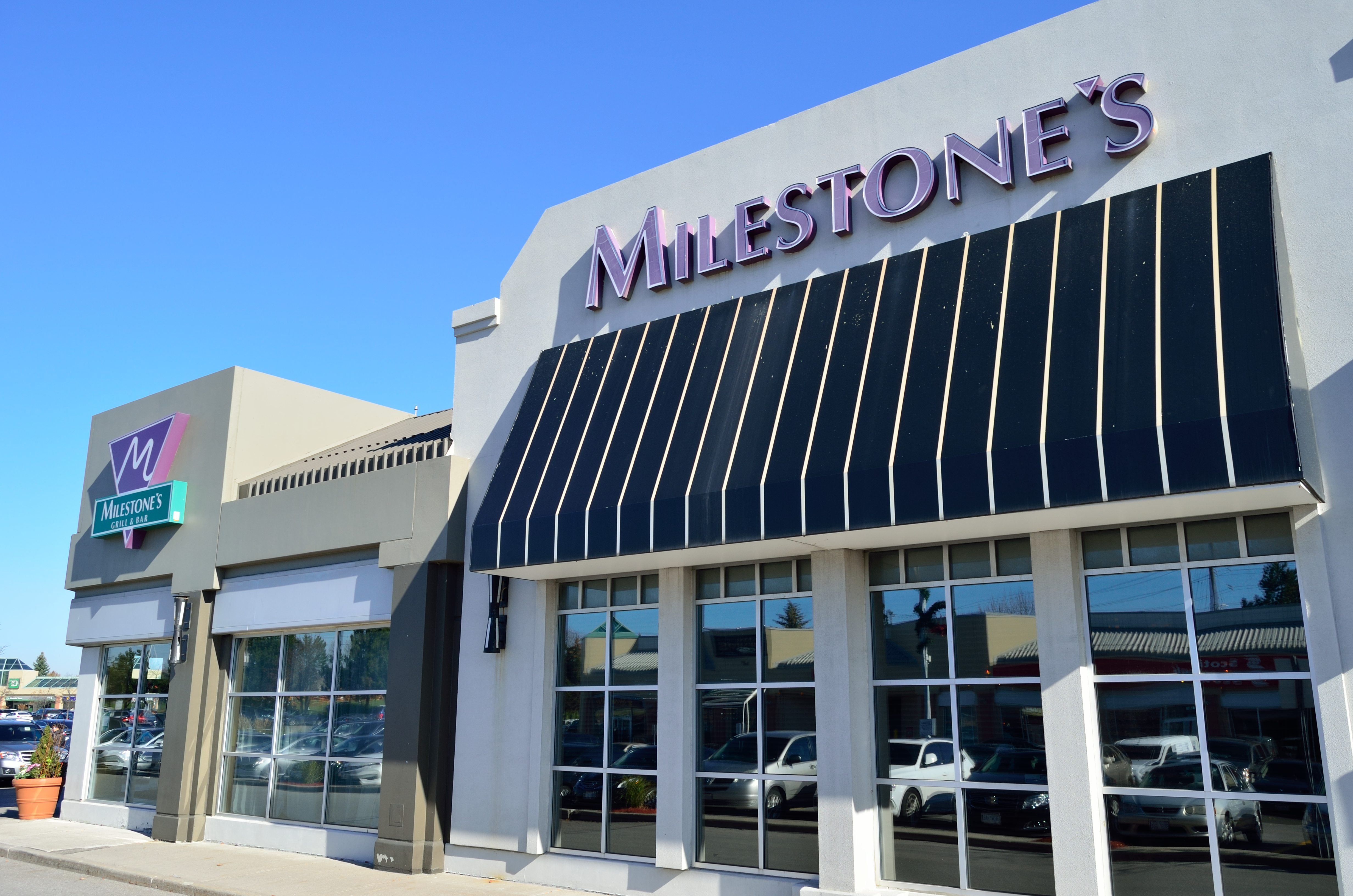 Milestones Grill and Bar at Markham Town Square